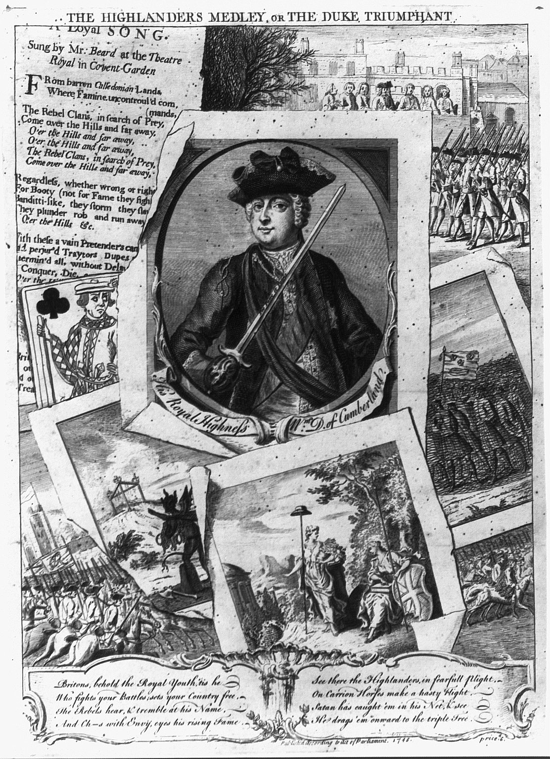 William Augustus, Duke of Cumberland. The Highlanders Medley, or the Duke Triumphant. Head and shoulders of Wm., Duke of Cumberland, with vignettes of popular battle scenes and satires and verses extolling his conquest of the Scots Highlanders. Published: 1746. Repository: Library of Congress Prints and Photographs Division Washington, D.C.